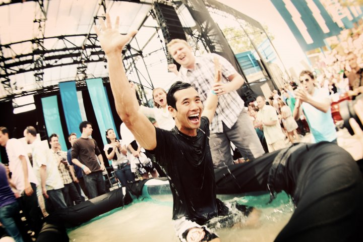 Baptism on Easter Sunday at The Pacific Amphitheatre, by Rock Harbor Church Costa Mesa.